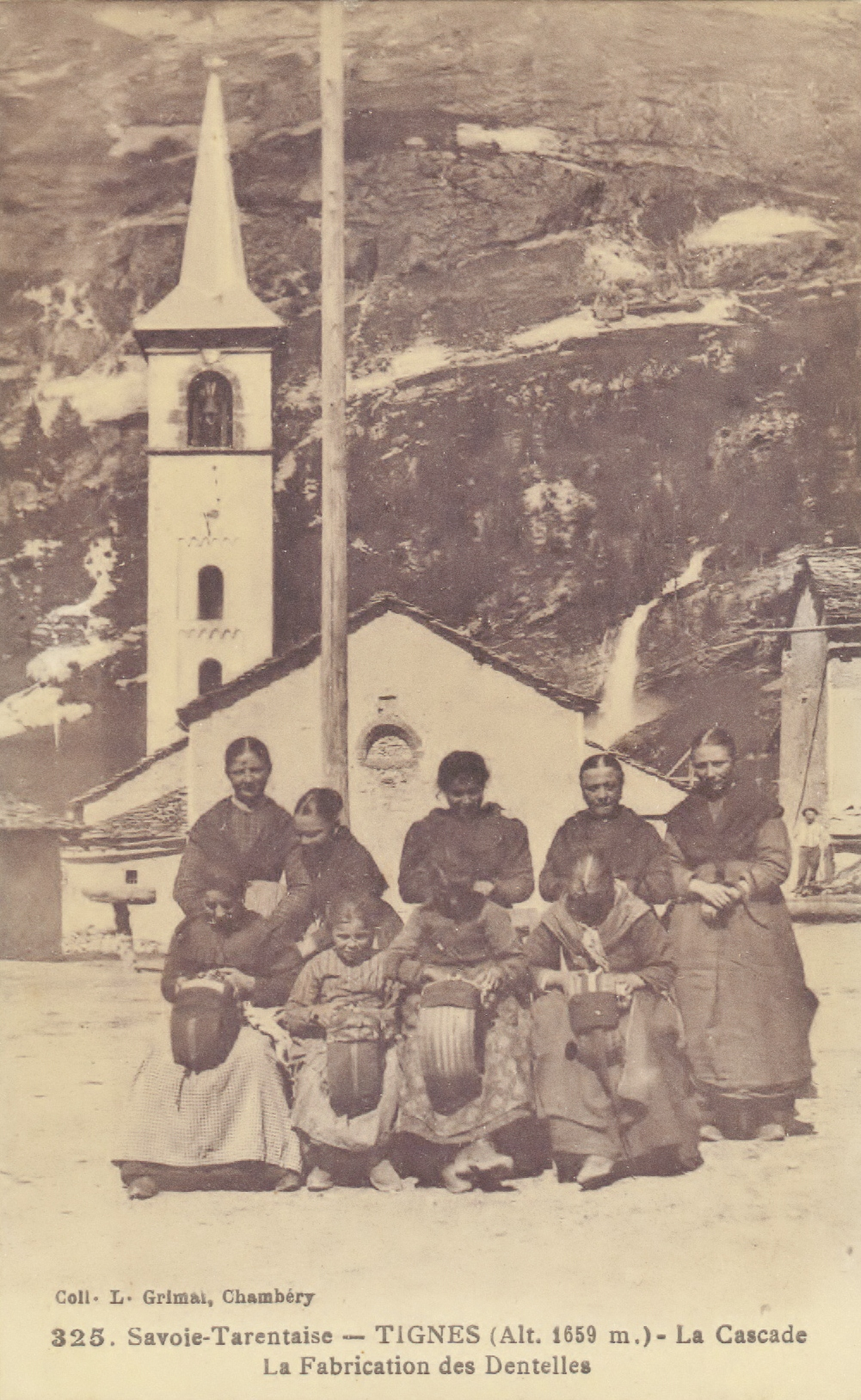 Women making lace at Tignes in Savoie, France before 1930.